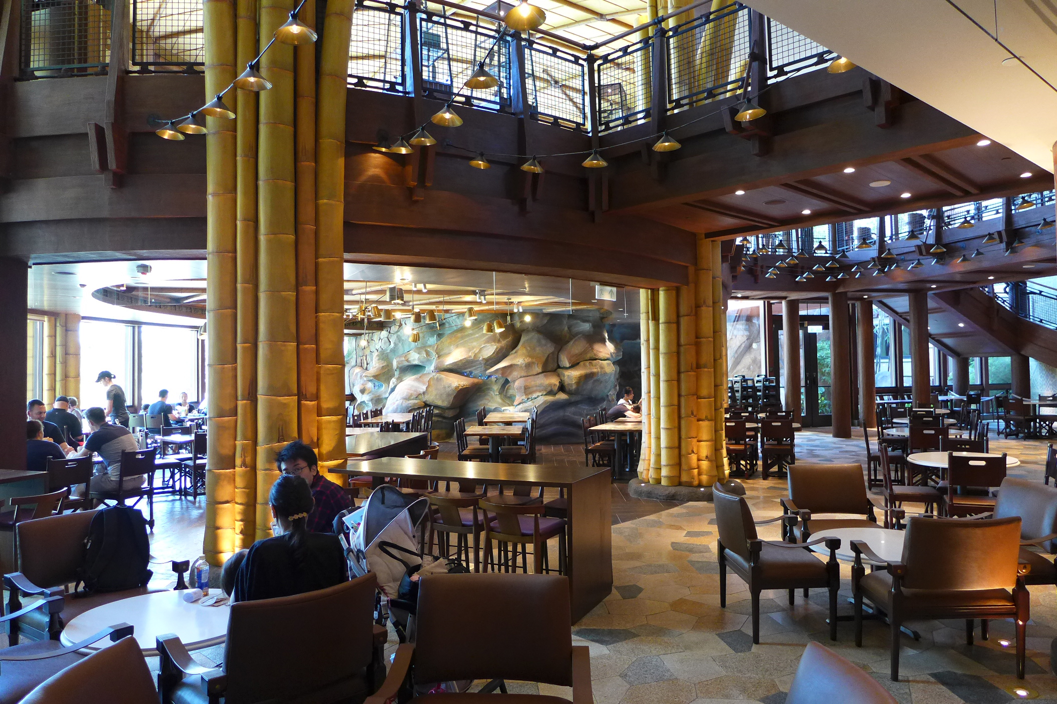 Disney Explorers Lodge Chart Room Cafe